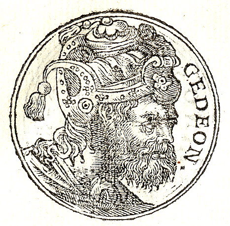 Gideon is a judge appearing in the Book of Judges, in the Bible.